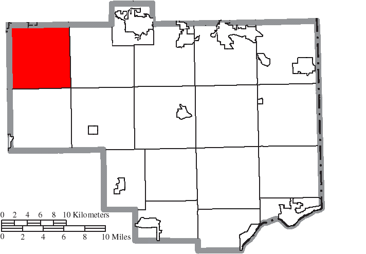 Map of the municipal and township boundaries of Columbiana County, Ohio, United States, as of the 2000 census, with the location of Knox Township highlighted. Township borders are shown only in unincorporated areas in order to differentiate incorporated and unincorporated areas more clearly.